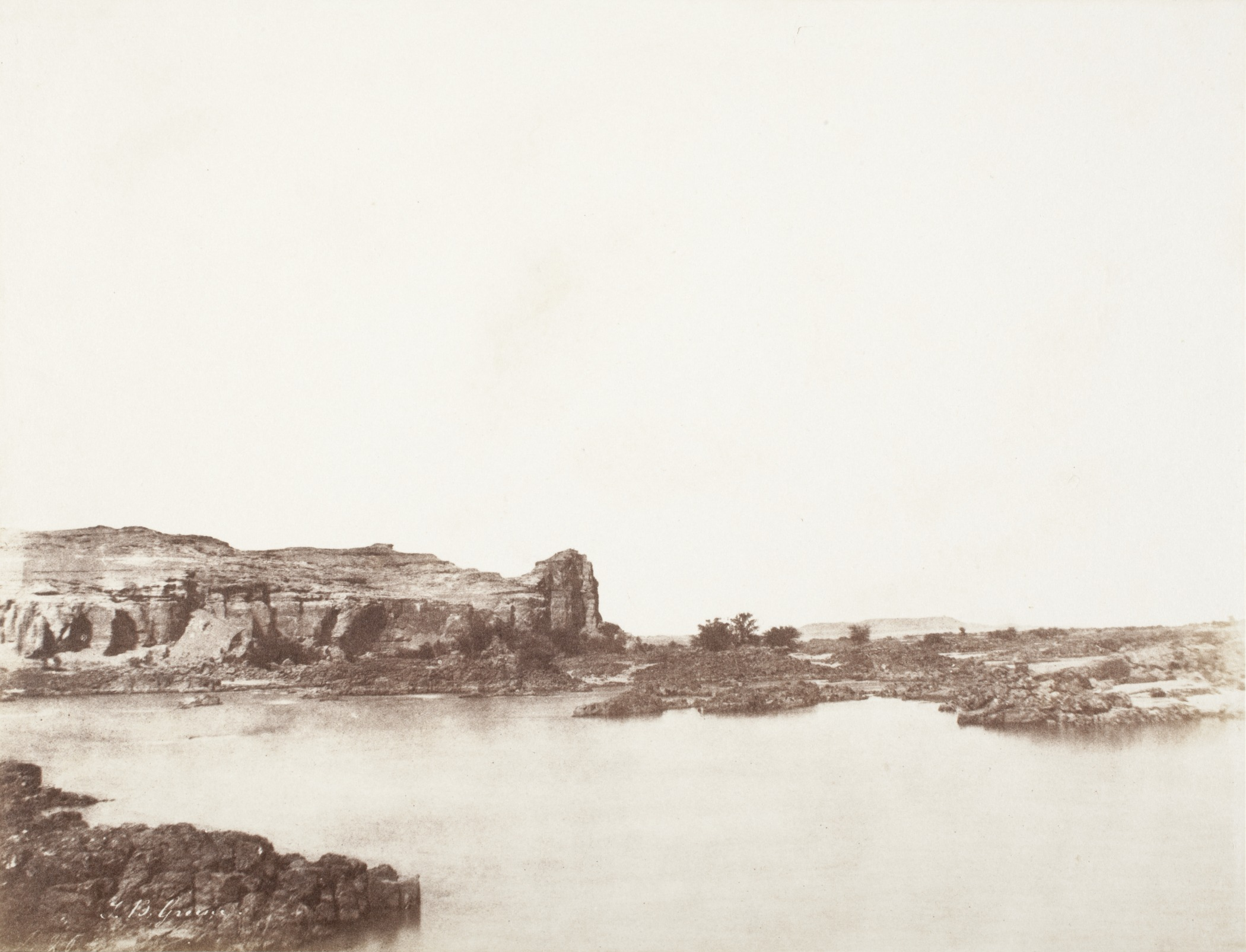 North Africa, 1854, printed 1854 Photographs Albumen (blanquart - evrard) The Marjorie and Leonard Vernon Collection, gift of The Annenberg Foundation and Carol Vernon and Robert Turbin (M.2008.40.978) Photography